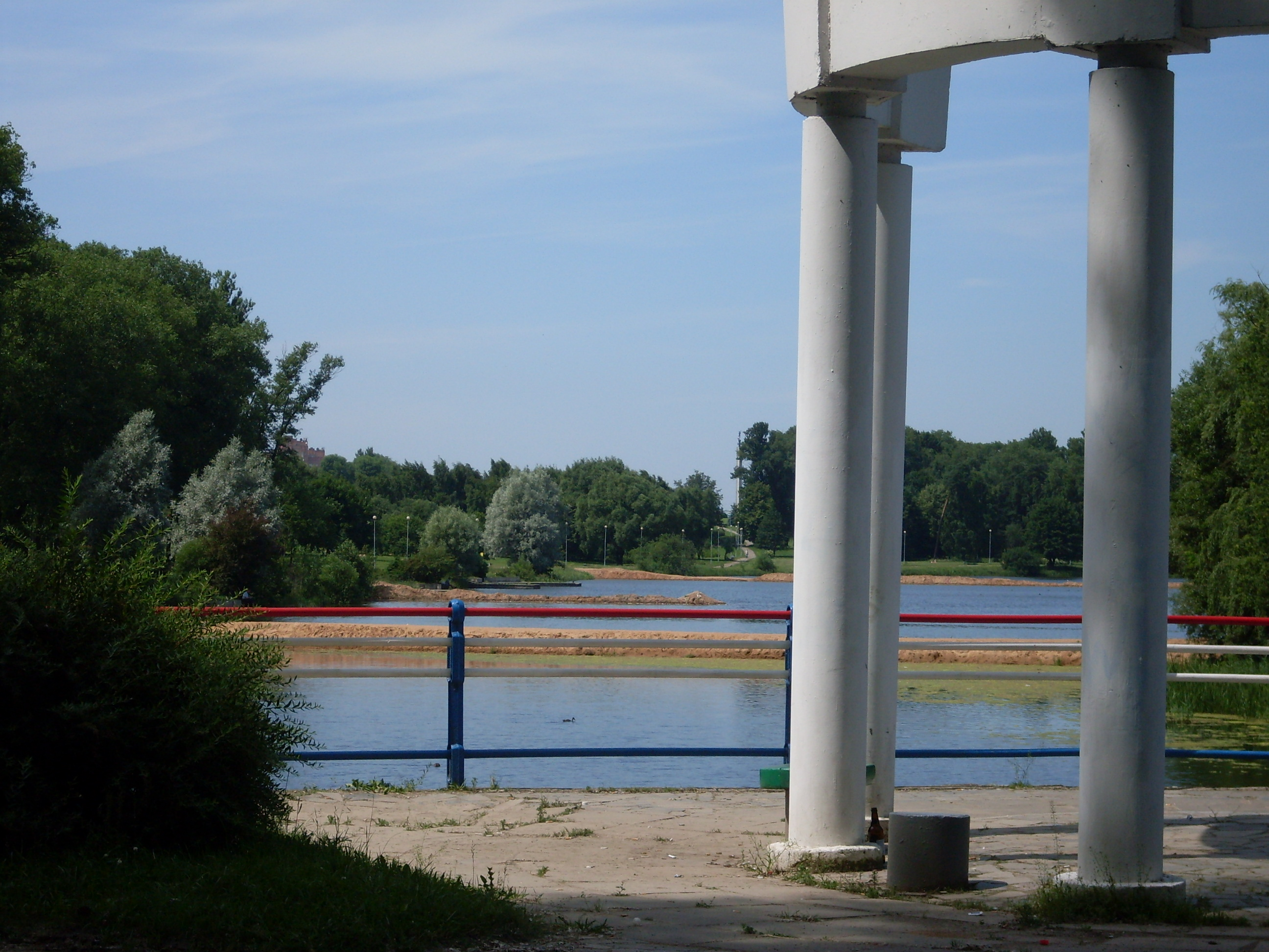 The Kamsamolskae lake in Minsk